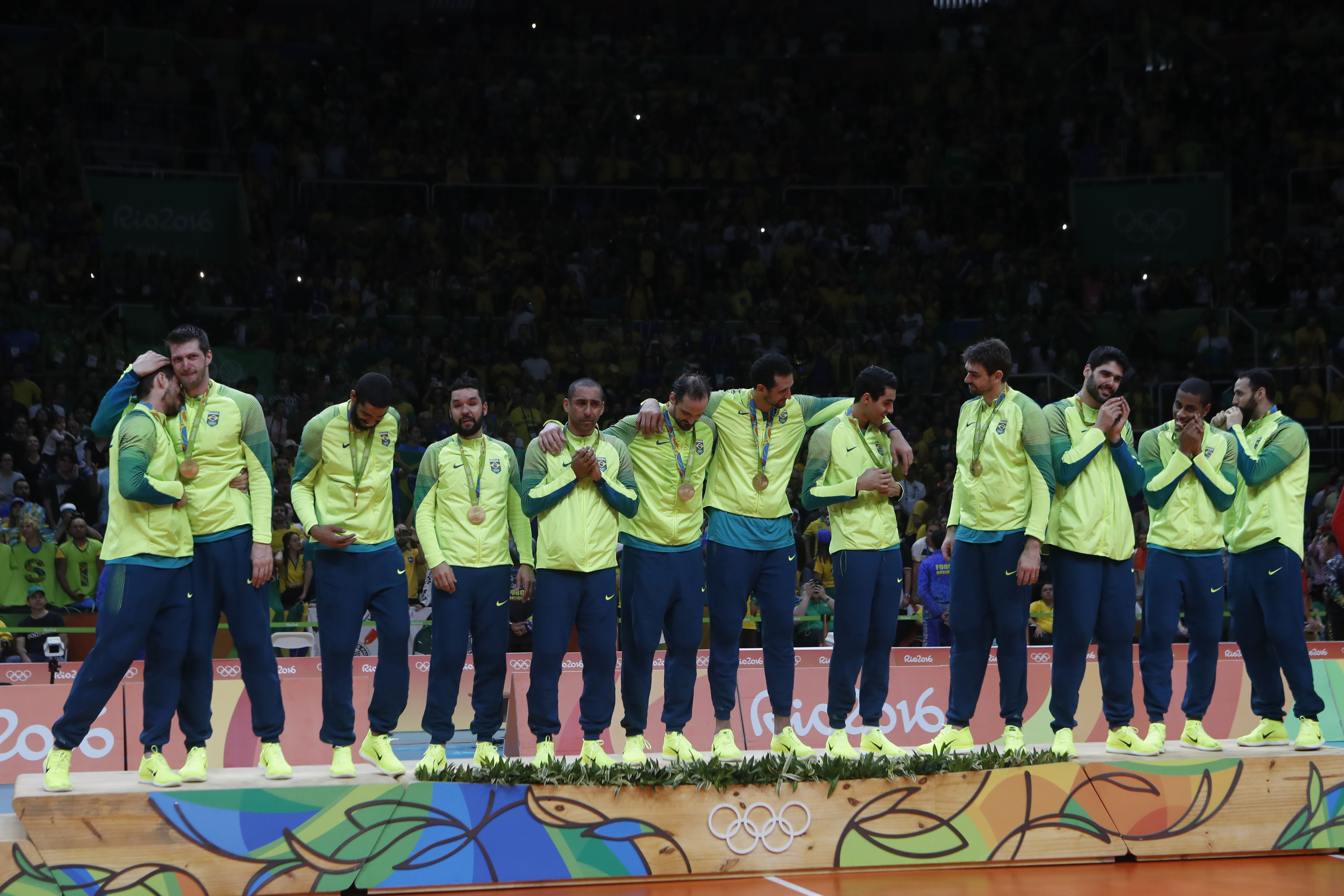 Rio de Janeiro - Seleção brasileira de vôlei ganha medalha de ouro ao vencer a Itália na final dos Jogos Olímpicos Rio 2016 no Maracanãzinho (Fernando Frazão/Agência Brasil)